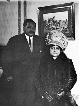 Photo portrait of Prince and Princess Kalanianaole of Hawaii, posed in a room in Chicago, Illinois.